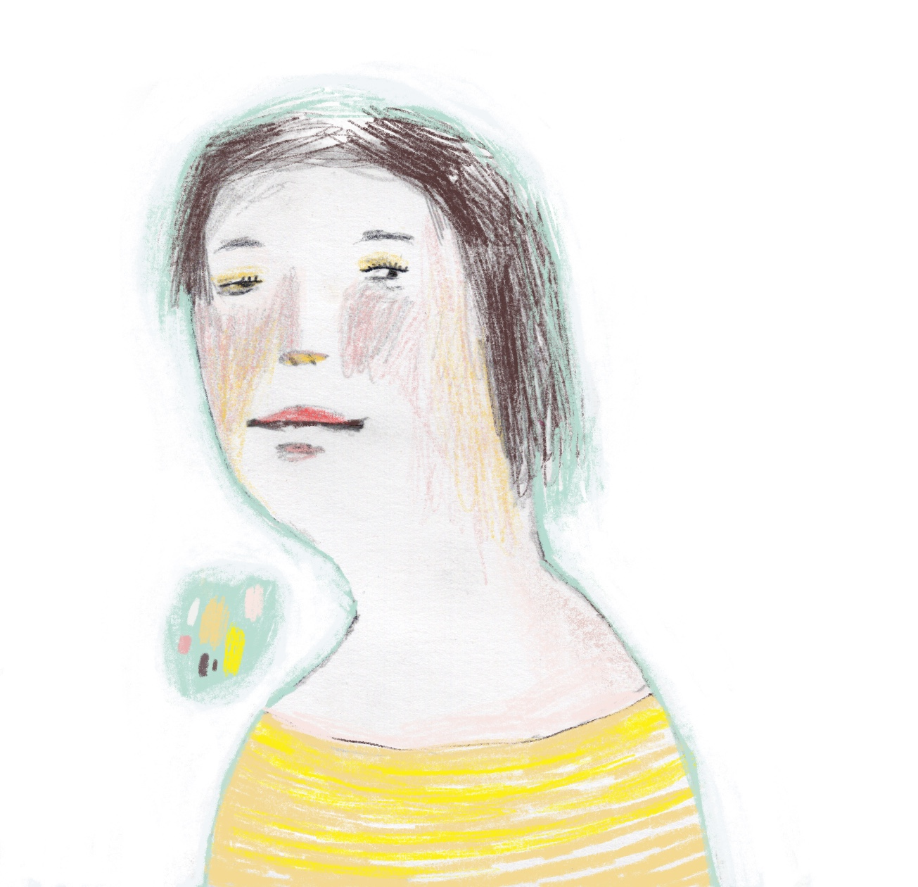 Self Portrait, Yana Bukler